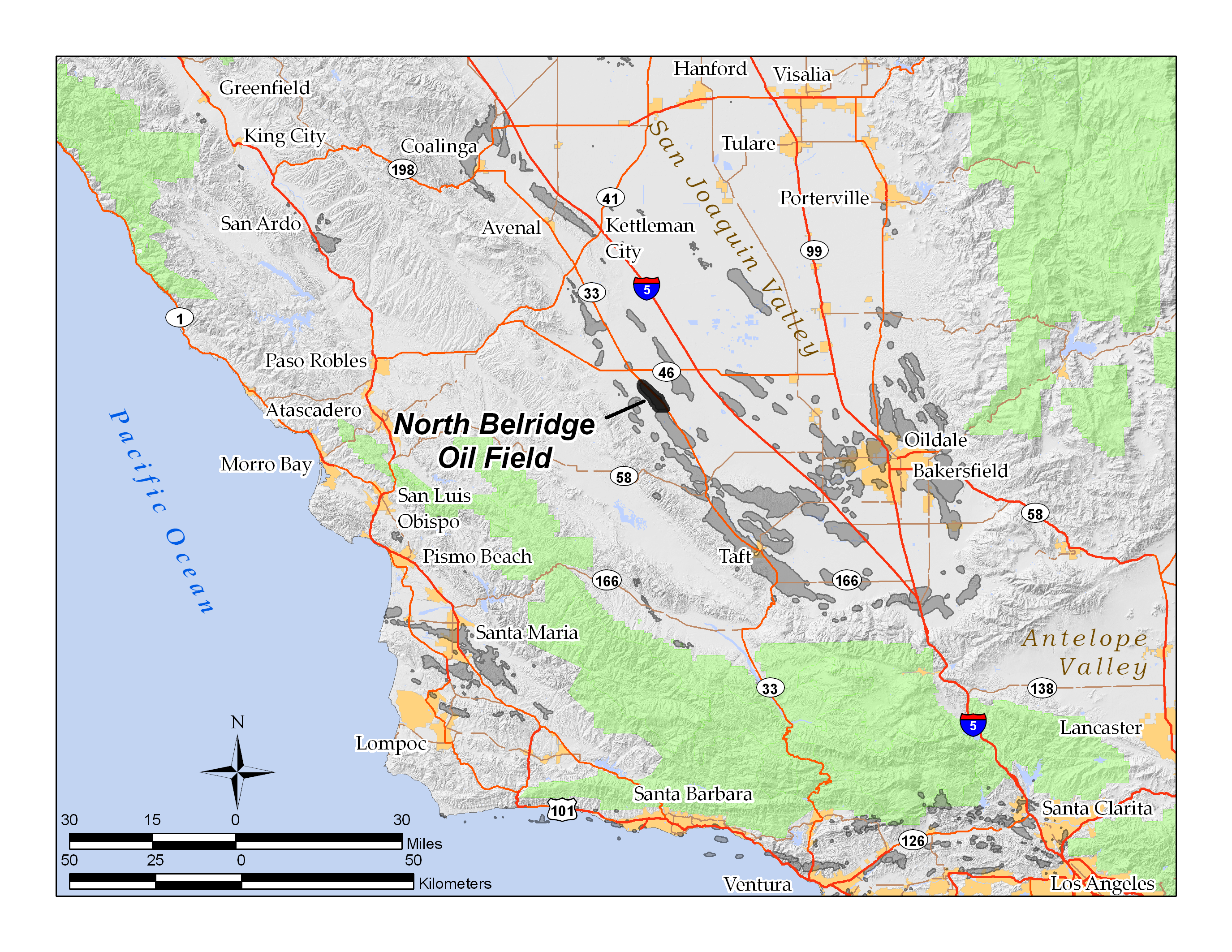 Map of North Belridge Oil Field; by self in ArcGIS 9.2; GFDL